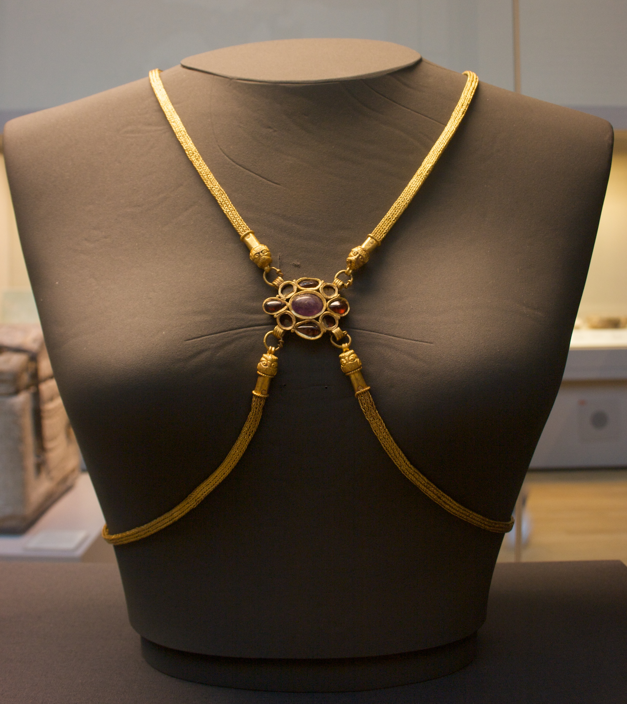 Gold body chain from the Hoxne Hoard.